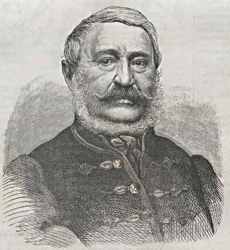 Portrait of Károly Herepei